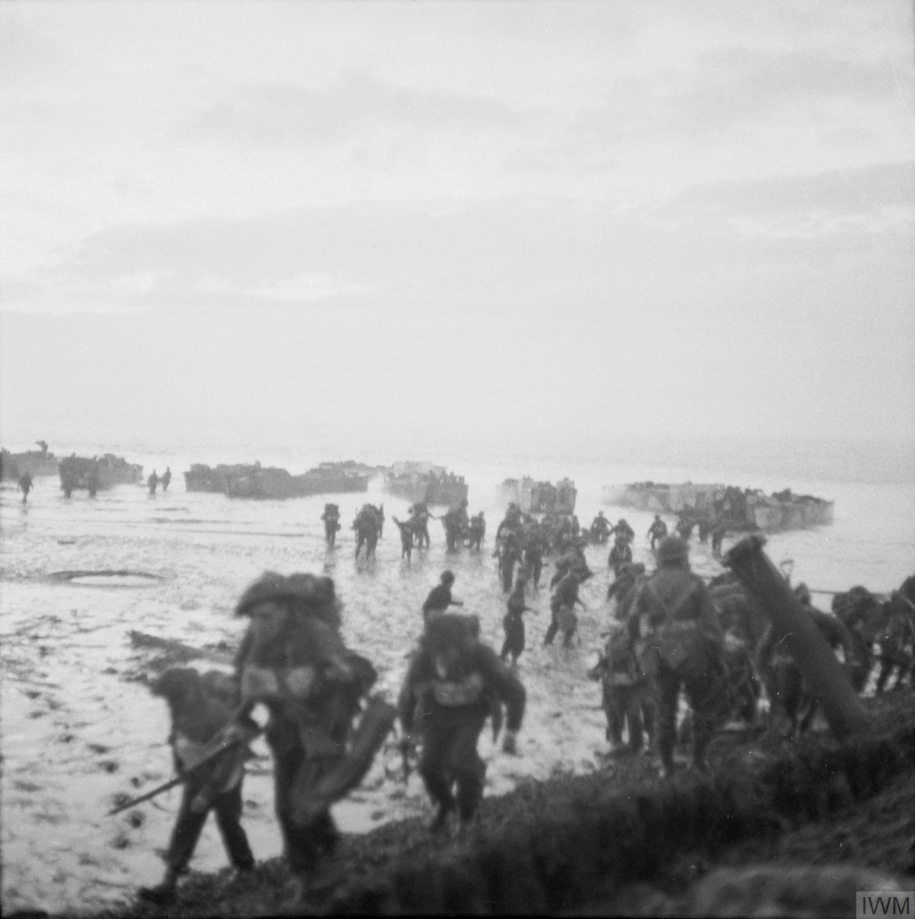 The Allied Campaign in North-west Europe, 6 June 1944 - 7 May 1945 The Battle for Walcheren Island: Men of the 4th Special Service Brigade wade ashore from landing craft near Flushing to complete the occupation of Walcheren.